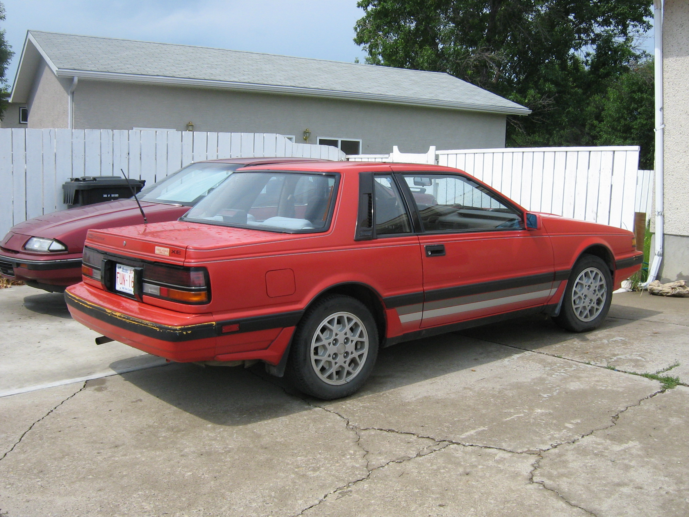 Nissan 200SX notchback